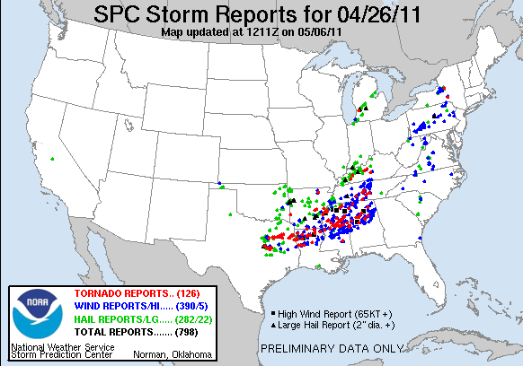 Plotted reported damages by tornadoes, hail and winds for the 24 hours period from April 26th, 2011 at 12 UTC to the 27th at 1159 UTC.